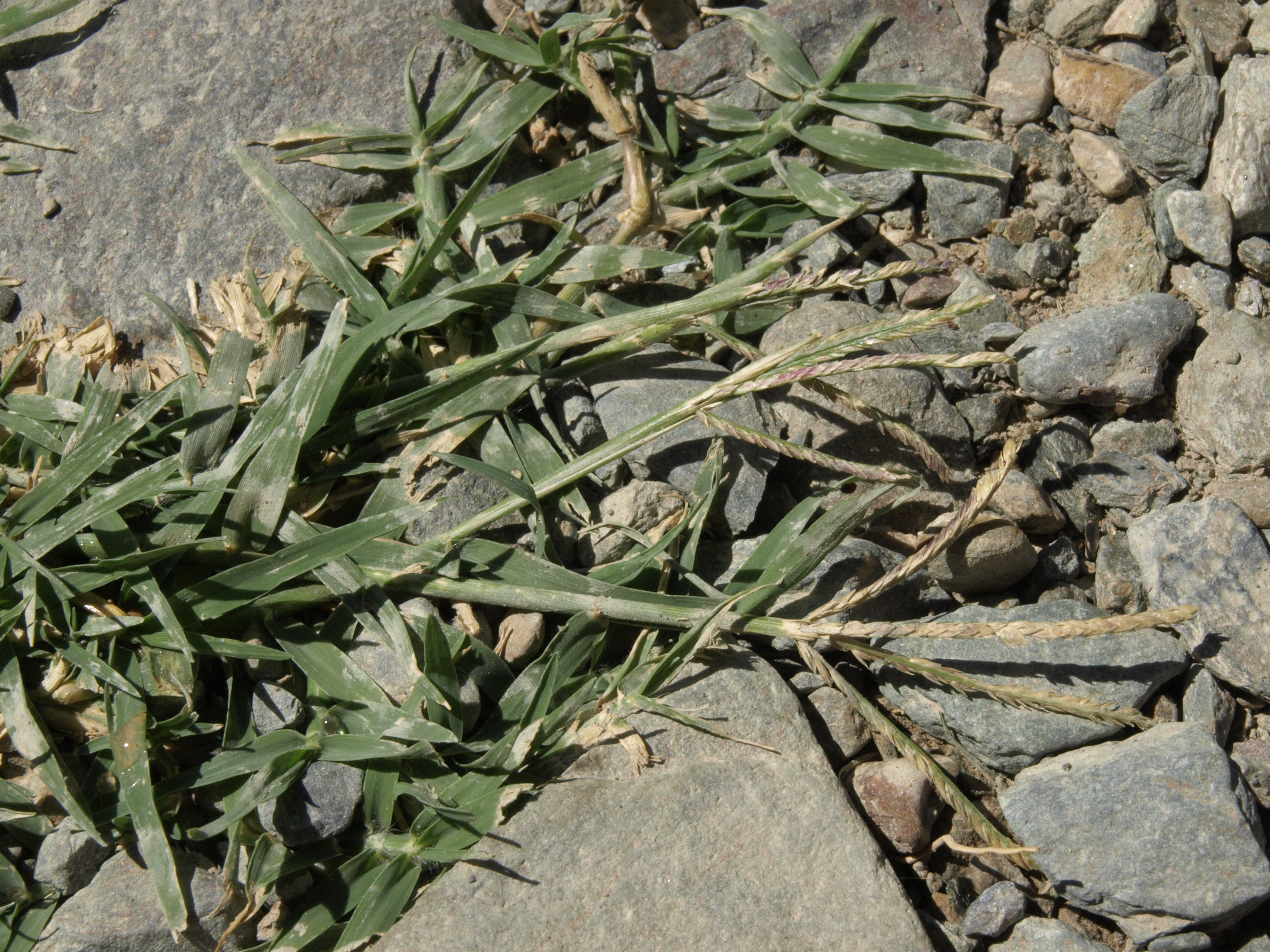 Bermuda grass, Cynodon dactylon, White Mountains, elevation 1705 m (5590 ft). Occasional weed here; can be invasive in warmer and wetter climates, where sometimes used as a low-maintenance lawn grass. Native to Africa.